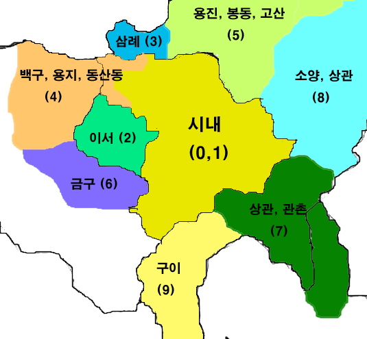 Korean explanation of image:Jeonju_City_Bus.png